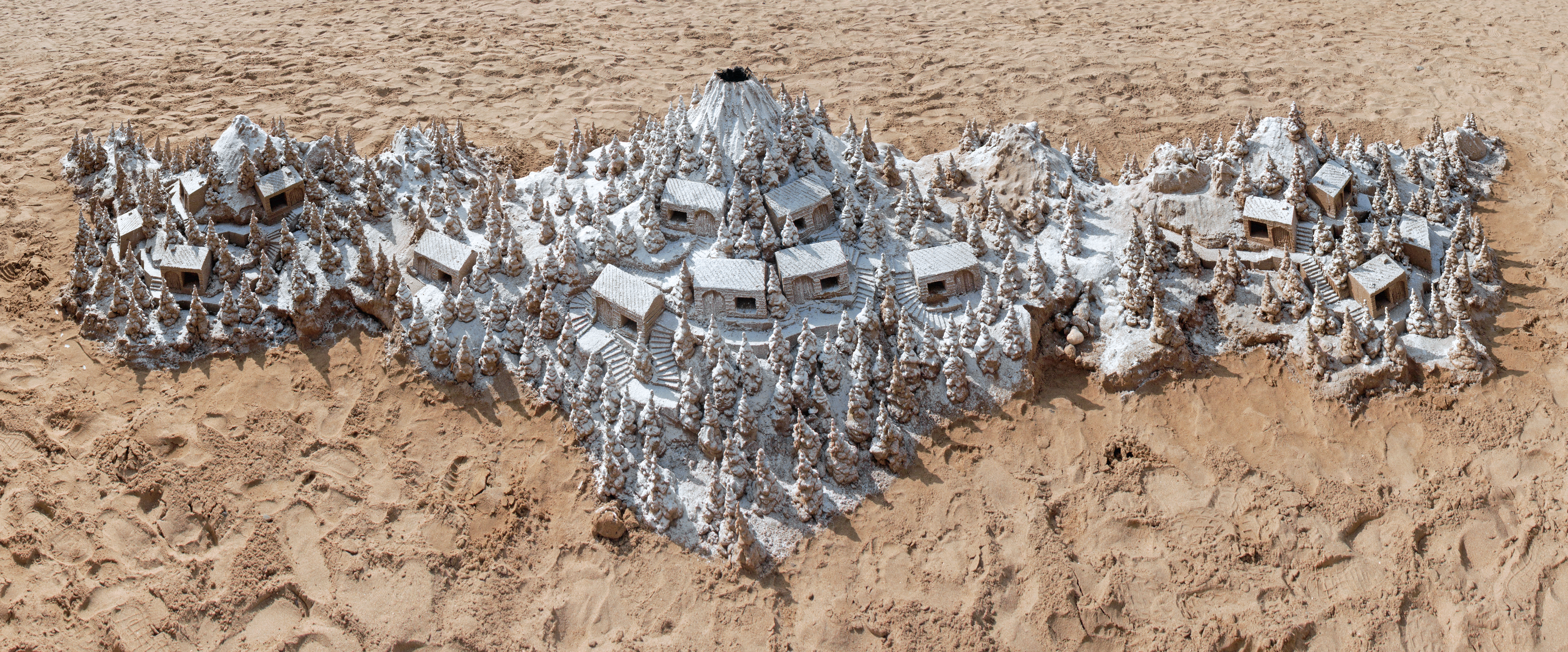 Sand sculpture at the beach of Puerto de Mogán, Gran Canaria, Canary Islands, Spain.